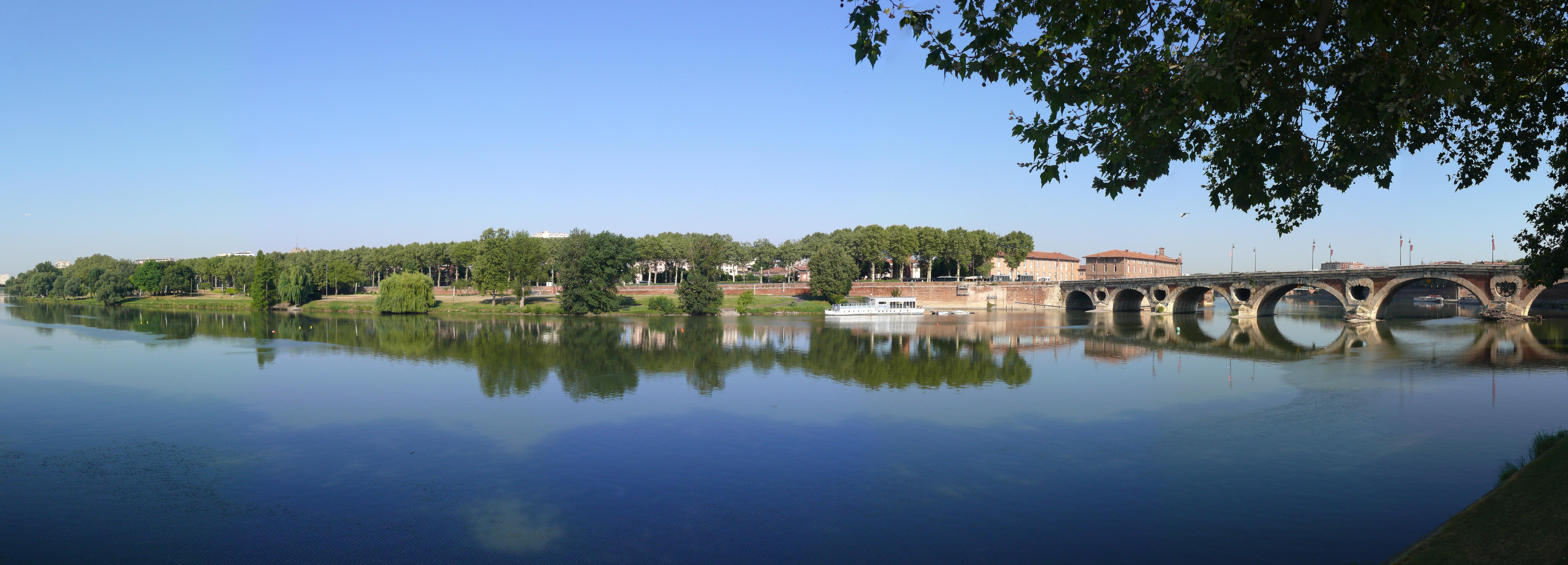 Prairie des Filtres and Pont Neuf in Toulouse